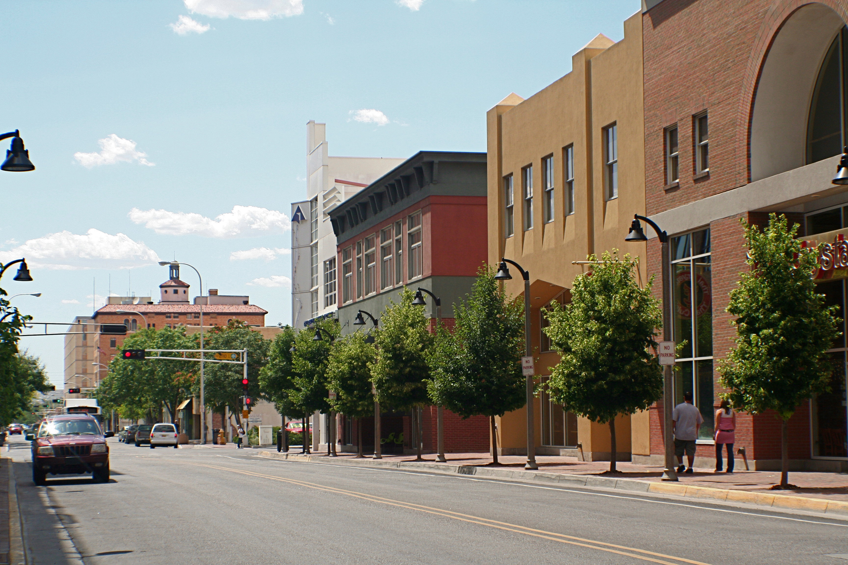 New buildings on Gold Avenue in Downtown Albuquerque